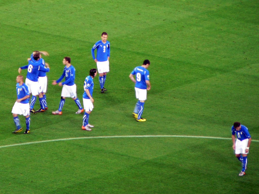 Italian team during the game between Italy and Paraguay at FIFA World Cup 2010, 14 June 2010, Green Point Stadium, Cape Town